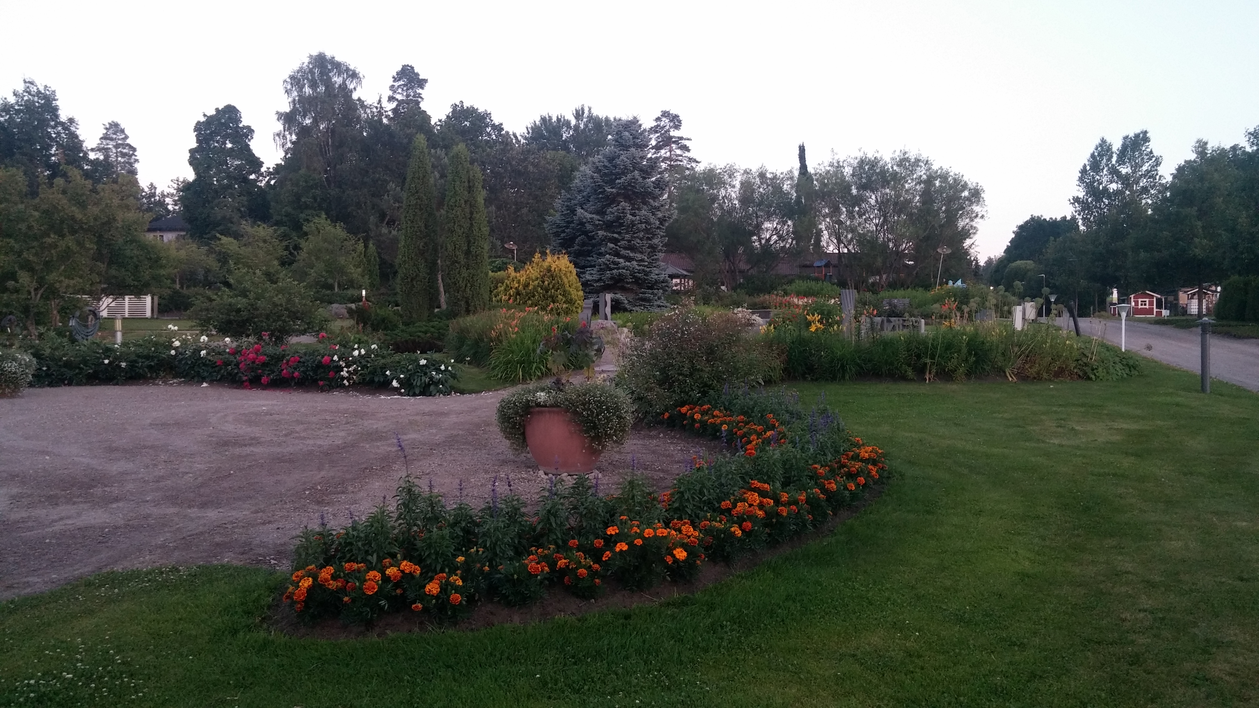 Marketanpuisto is a park in Espoo, Finland.